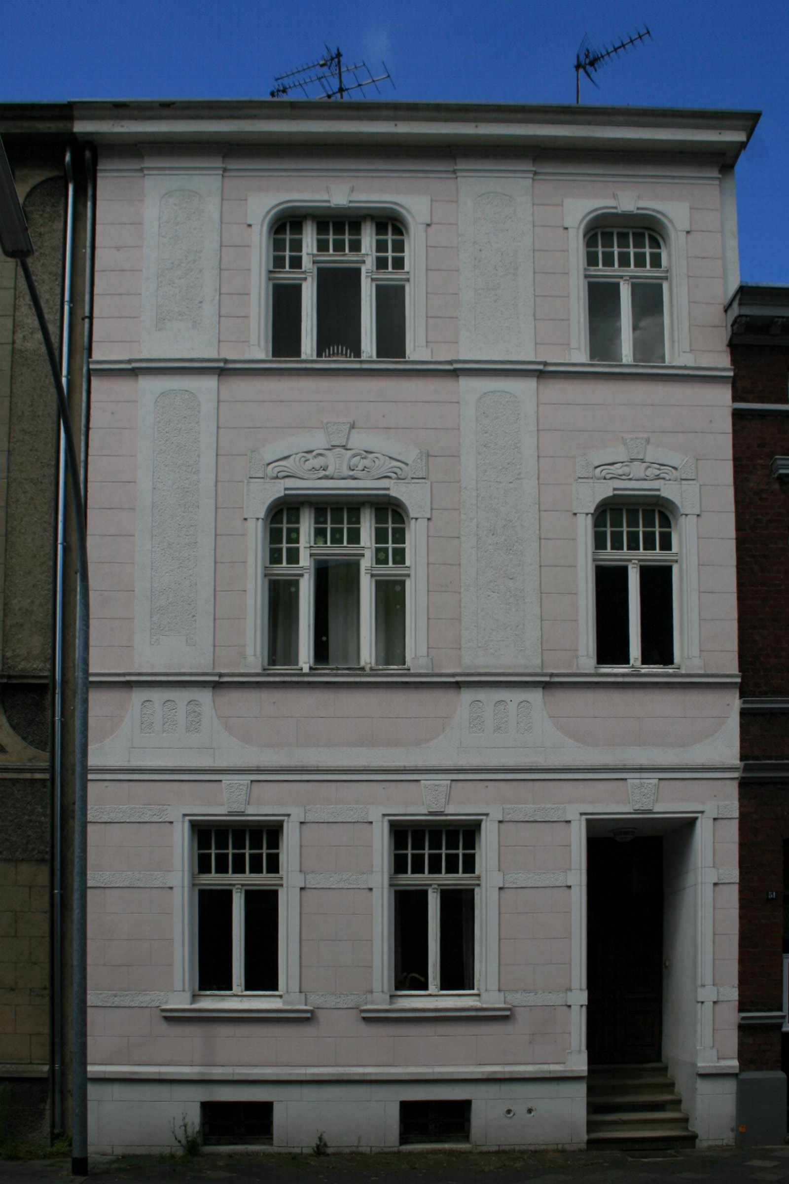 Cultural heritage monument No. B 074 in Mönchengladbach